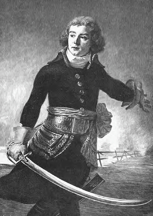 Louis-Alexandre Berthier, Marshal Berthier, Napoleon’s chief of staff from the start of his first Italian campaign in 1796 until his first abdication in 1814. The operational efficiency of the Grande Armée owed much to his considerable administrative and organizational skills.